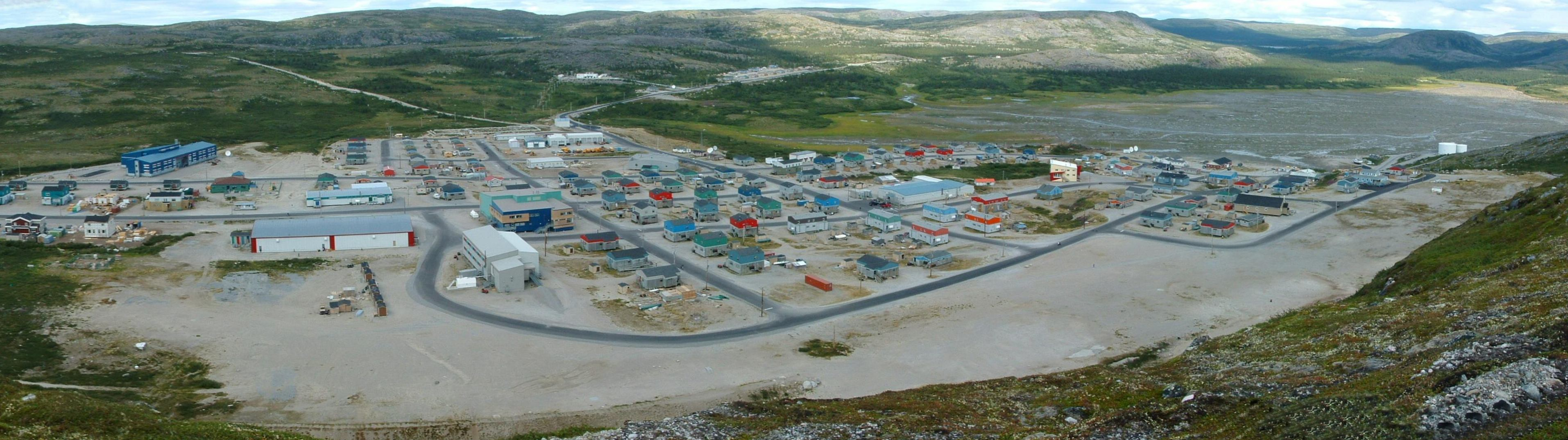 Aview of the remove Inuit village of Kangiqsualujjuaq in Northern Quebec, Canada